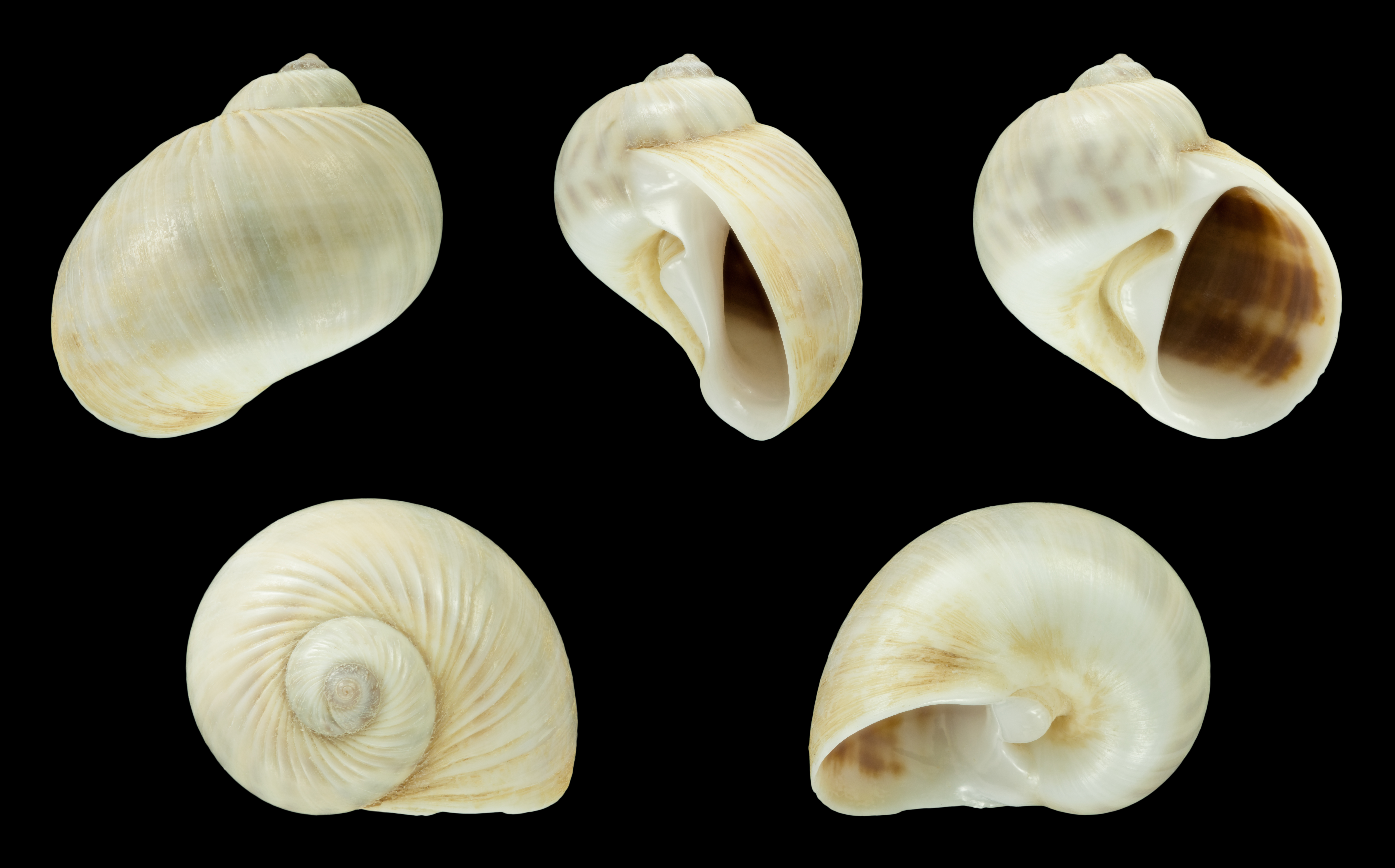 Notocochlis gualteriana (Récluz, 1844), Gualtieri's Moon Snail; height 1.7 cm; Originating from Samar, Philippines; Shell of own collection, therefore not geocoded.